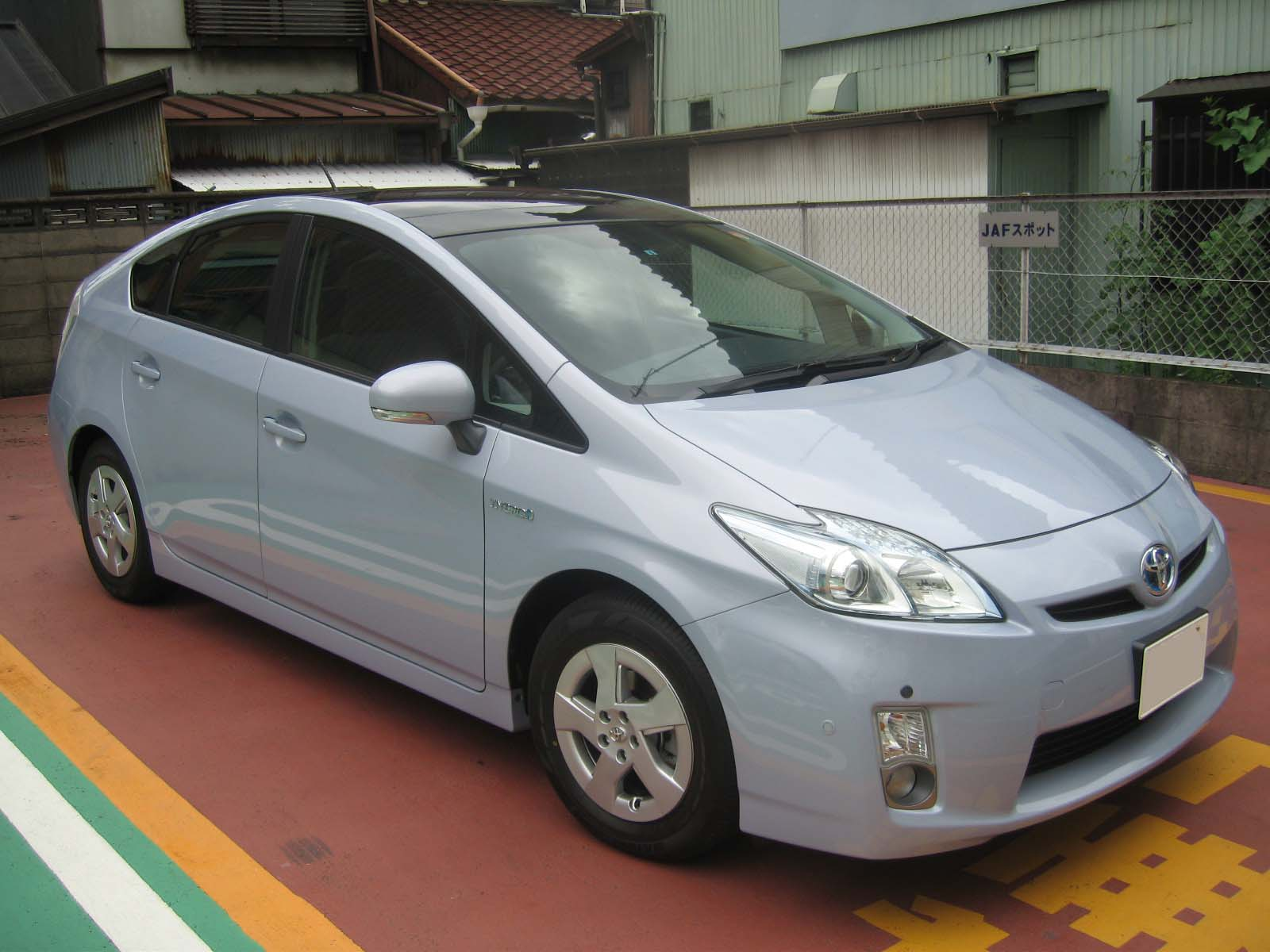 Toyota Prius (ZVW30)